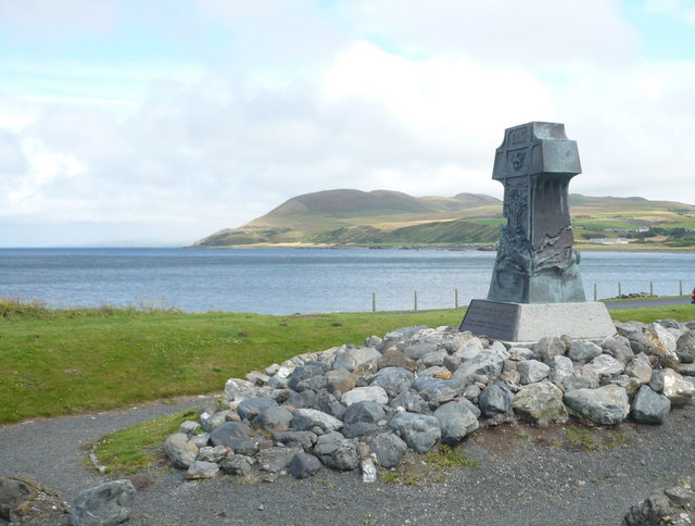 Memorial to the Russian cruiser Varyag The cruiser sank off the coast of Lendalfoot in 1920.